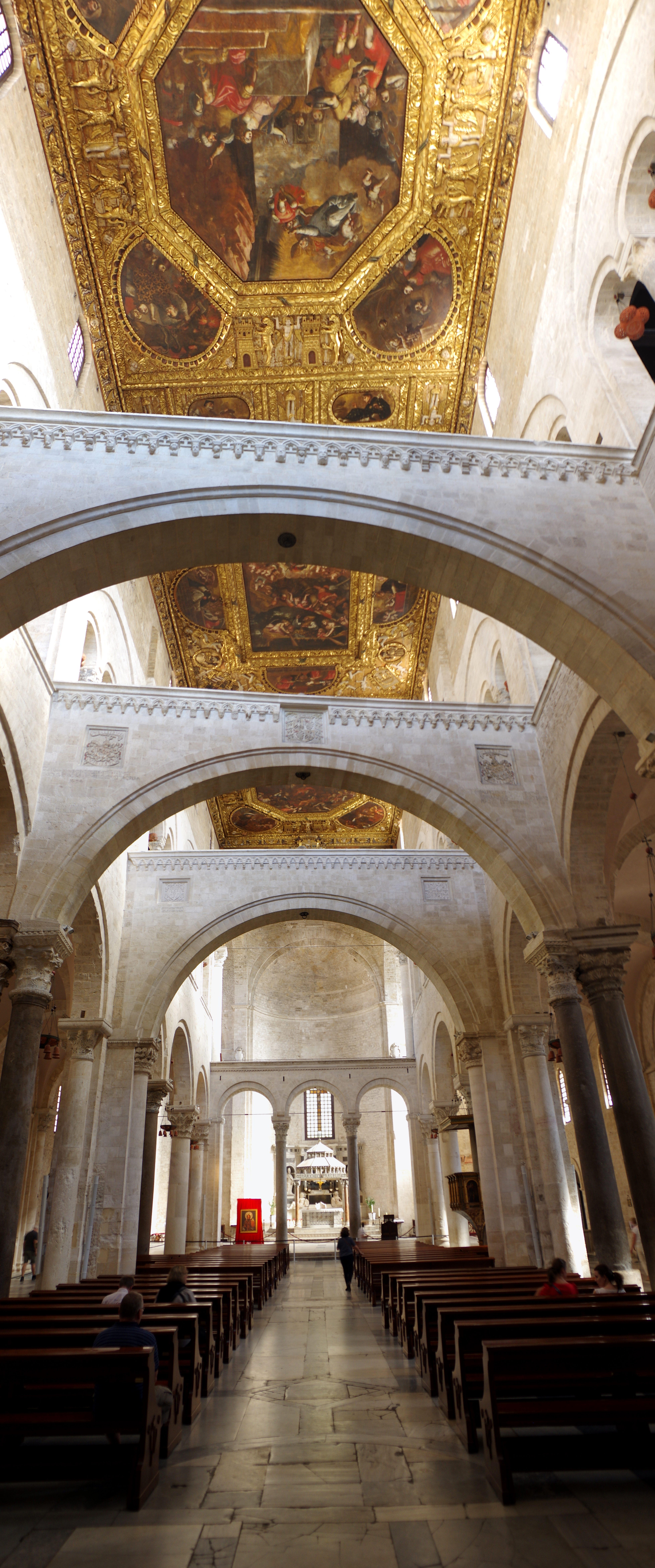 Italy, Bari, San Nicola church